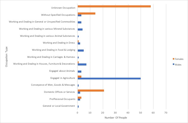 Occupations of males and females of Rickinghall Inferior Parish, Suffolk, as reported by the Census of Population from 1881.